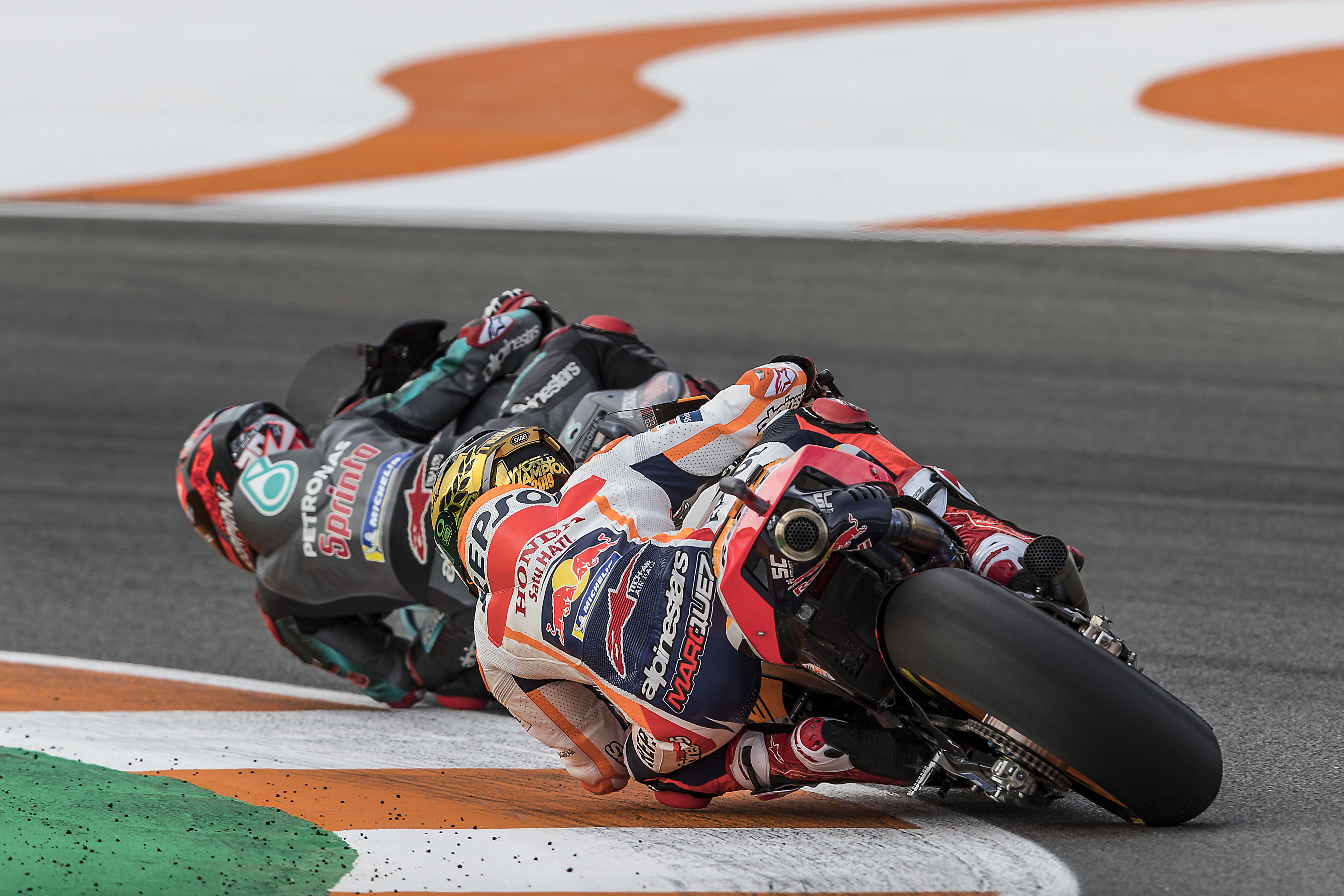 Fabio Quartararo, riding his Petronas SRT Yamaha, being closely followed by the Repsol Honda of Marc Márquez at the 2019 Valencian Community Grand Prix.